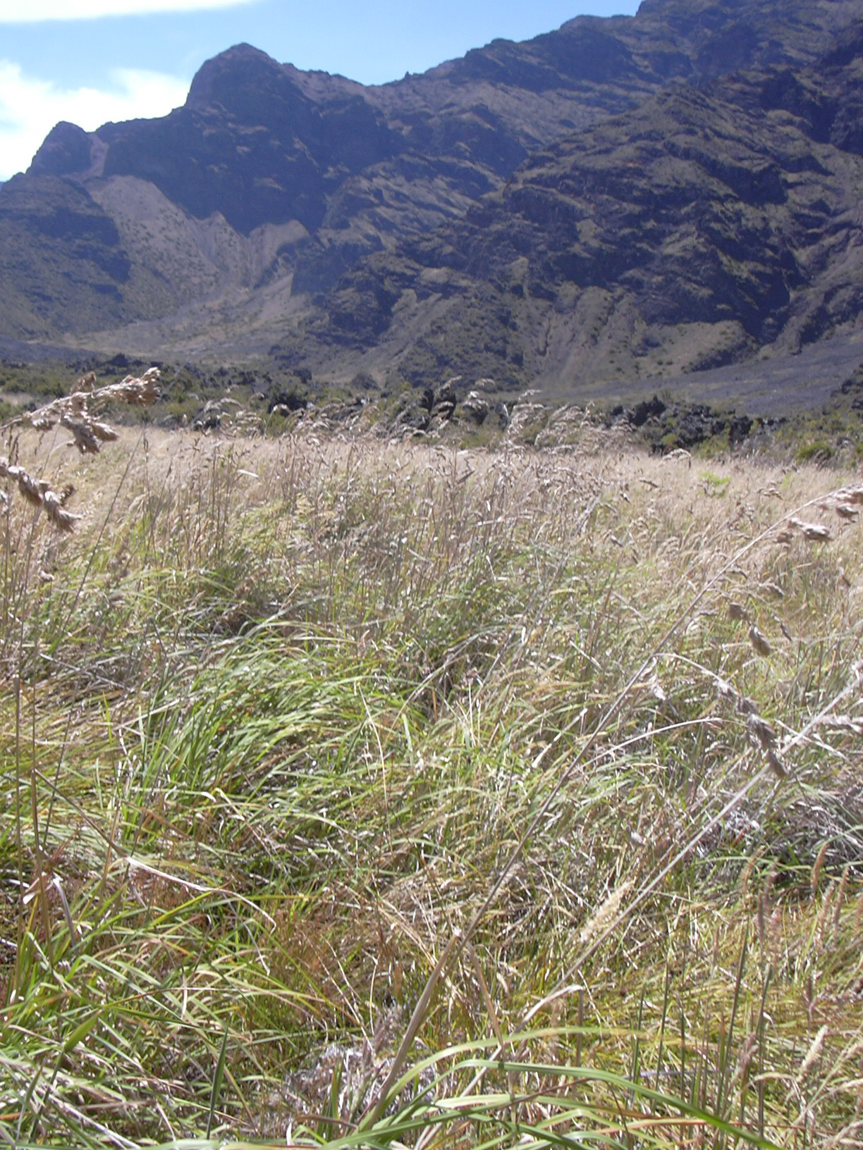 Dactylis glomerata (habit). Location: Maui, Swithbacks trail Haleakala National Park